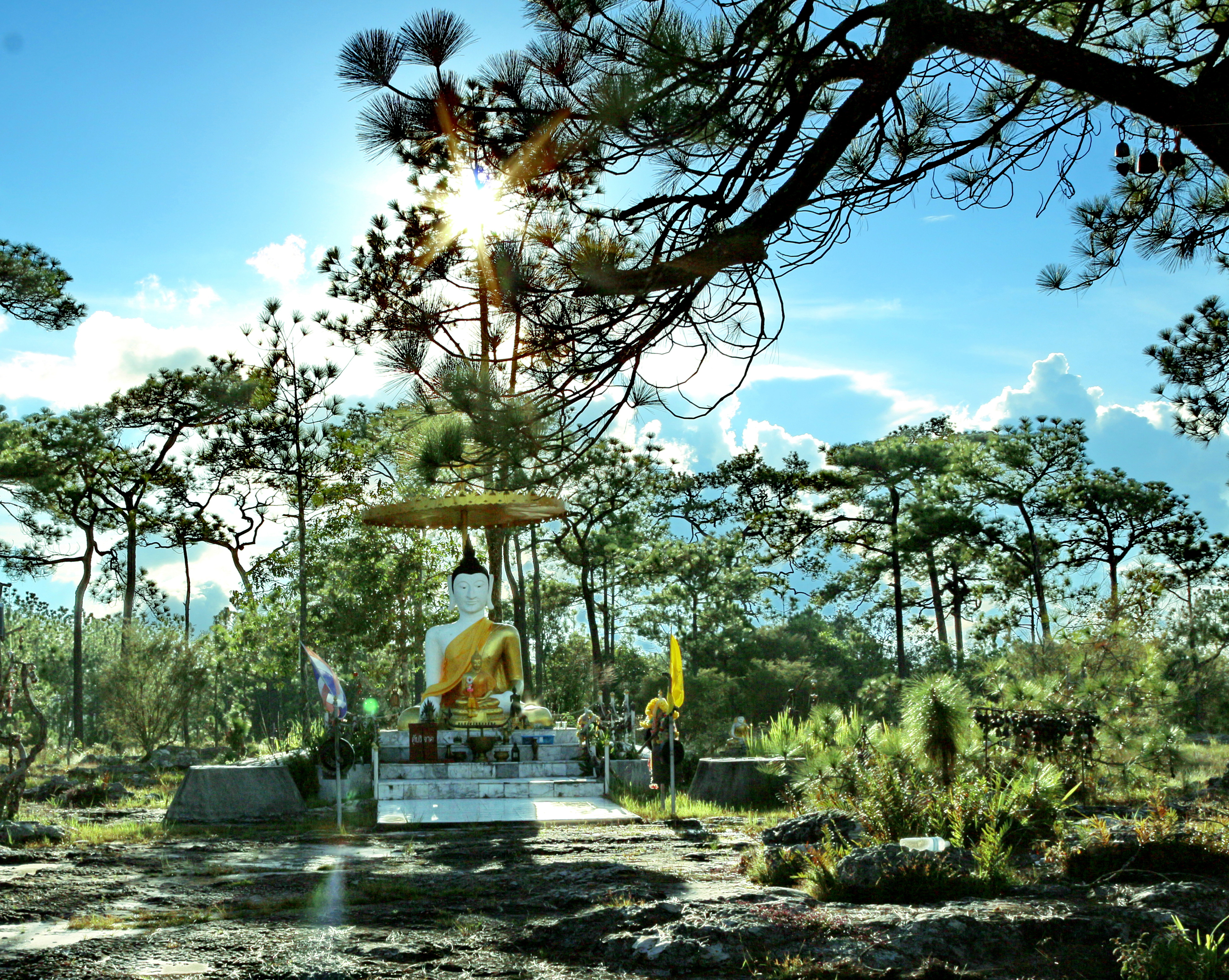 located in the Phu Kradueng mountain area, Amphoe Phu Kradueng of Loei Province, is one of the most famous national parks of Thailand